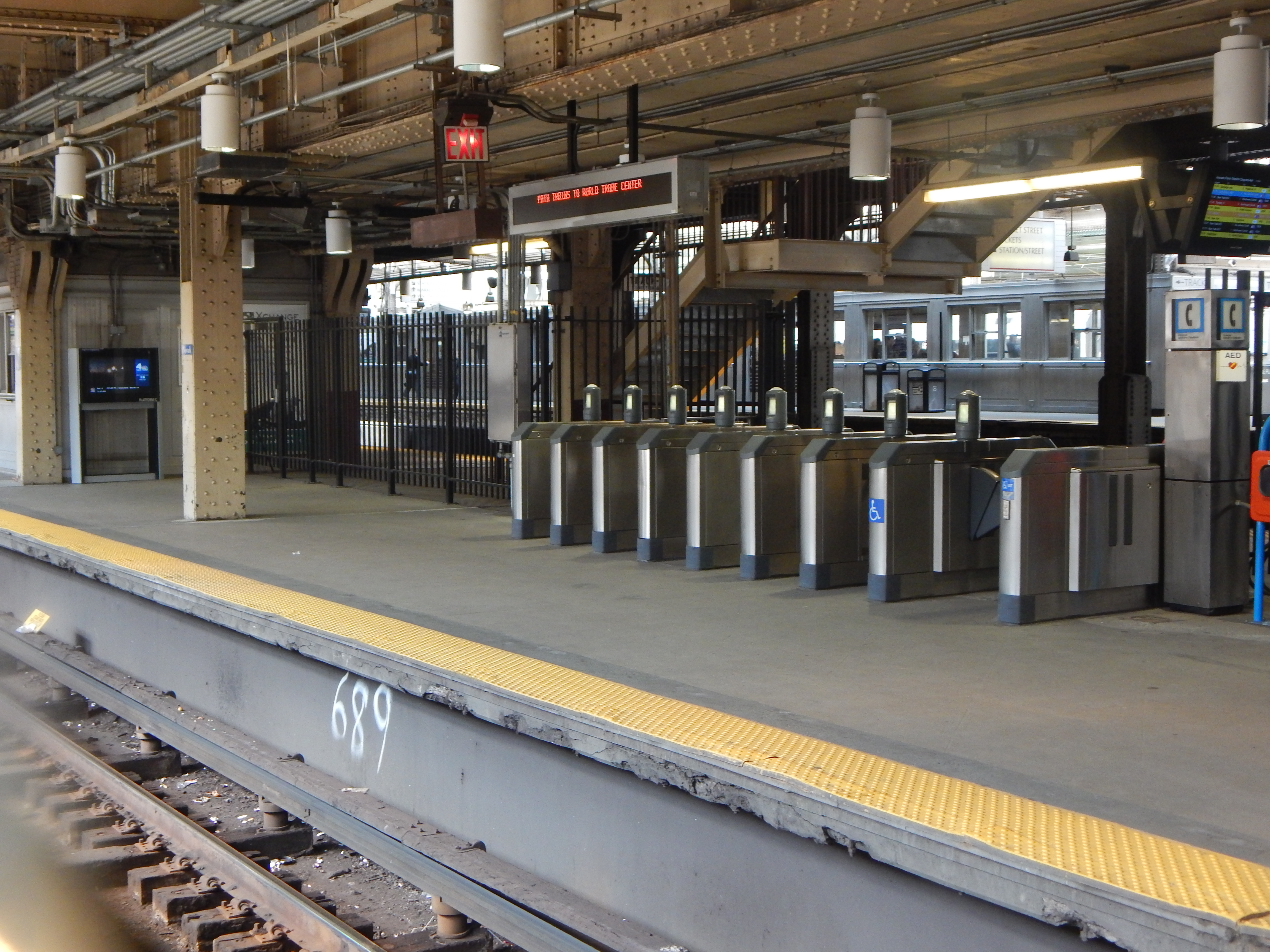 Newark, New Jersey